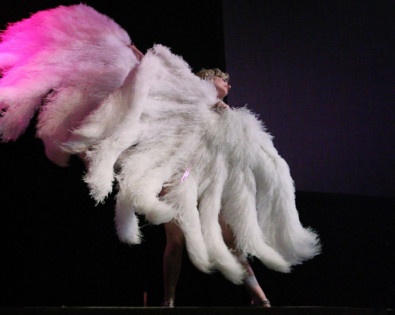 A fan dance by Michelle L'amour at the 2007 Miss Exotic World Pageant.